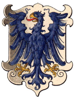 Coat of arms of Duchy of Auschwitz